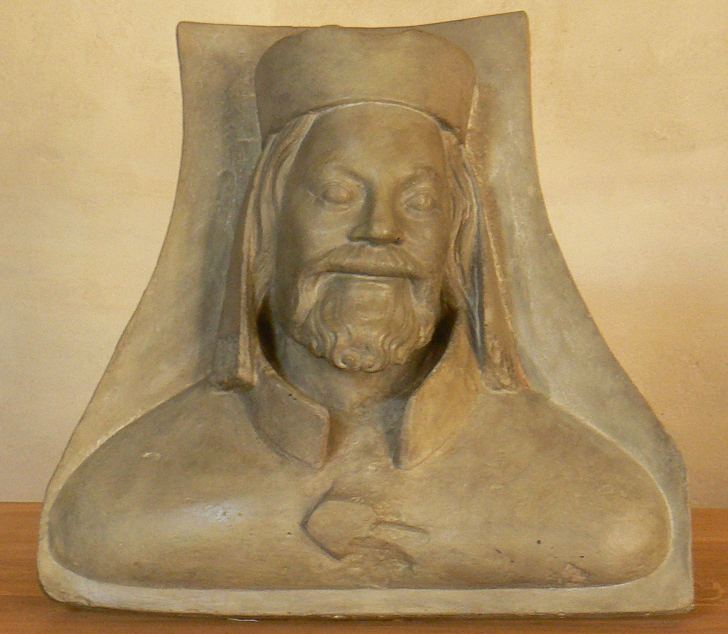 Charles IV, Holy Roman Emperor